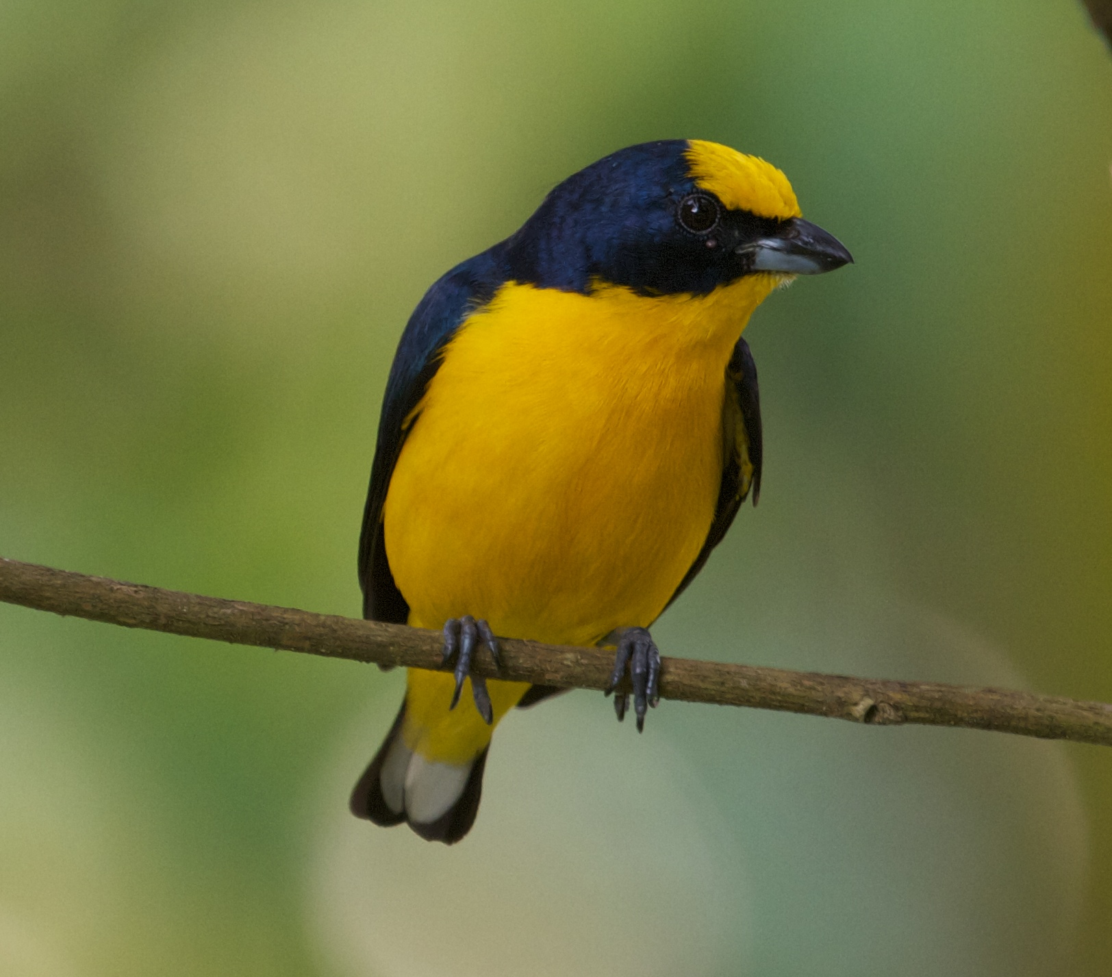 Thick-billed Euphonia